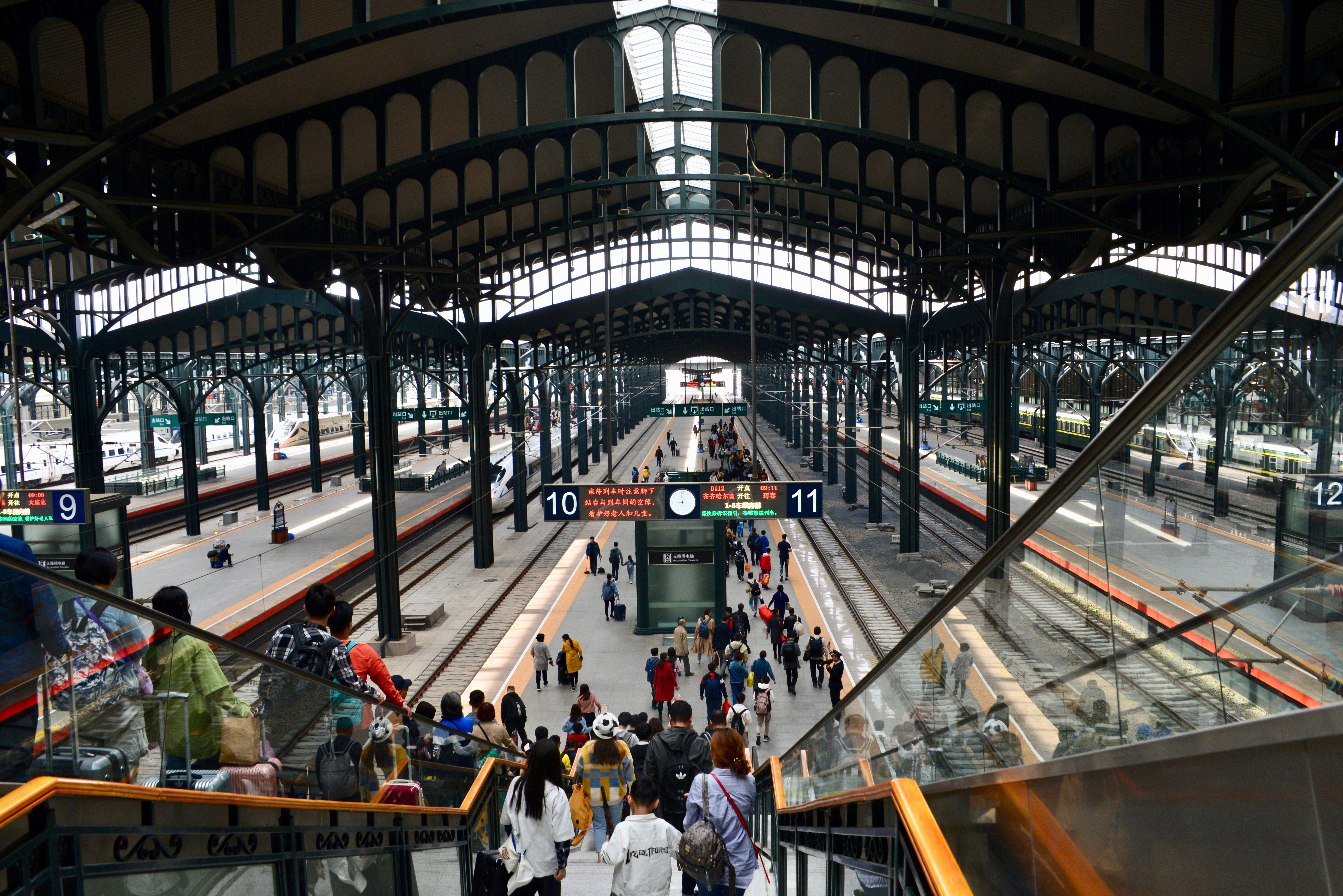 Harbin Railway Station